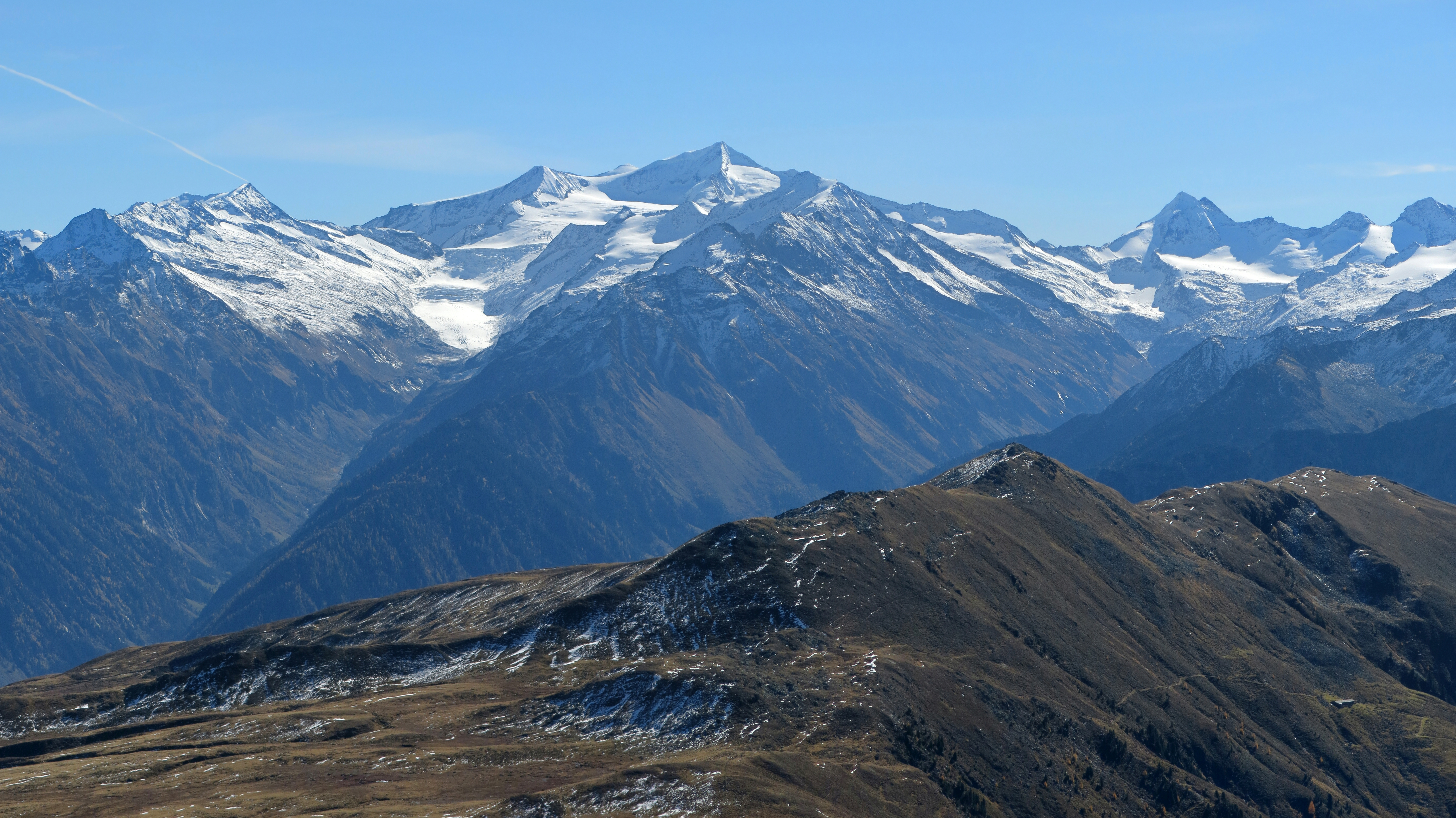 The Großvenediger, seen from Kröndlhorn